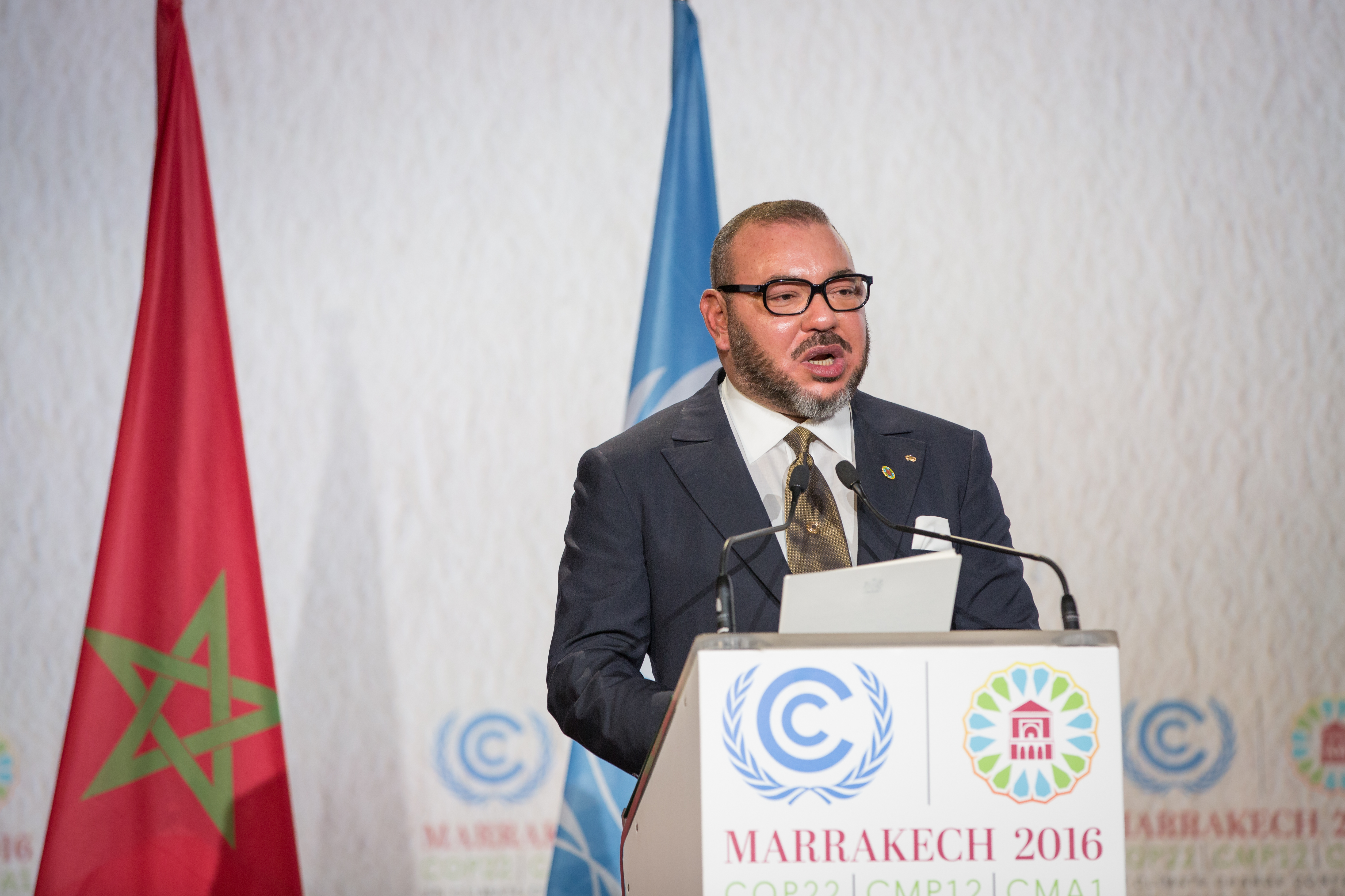 King of Morocco Mohammed VI speak at the UN Climate Change Conference in Marrakech.